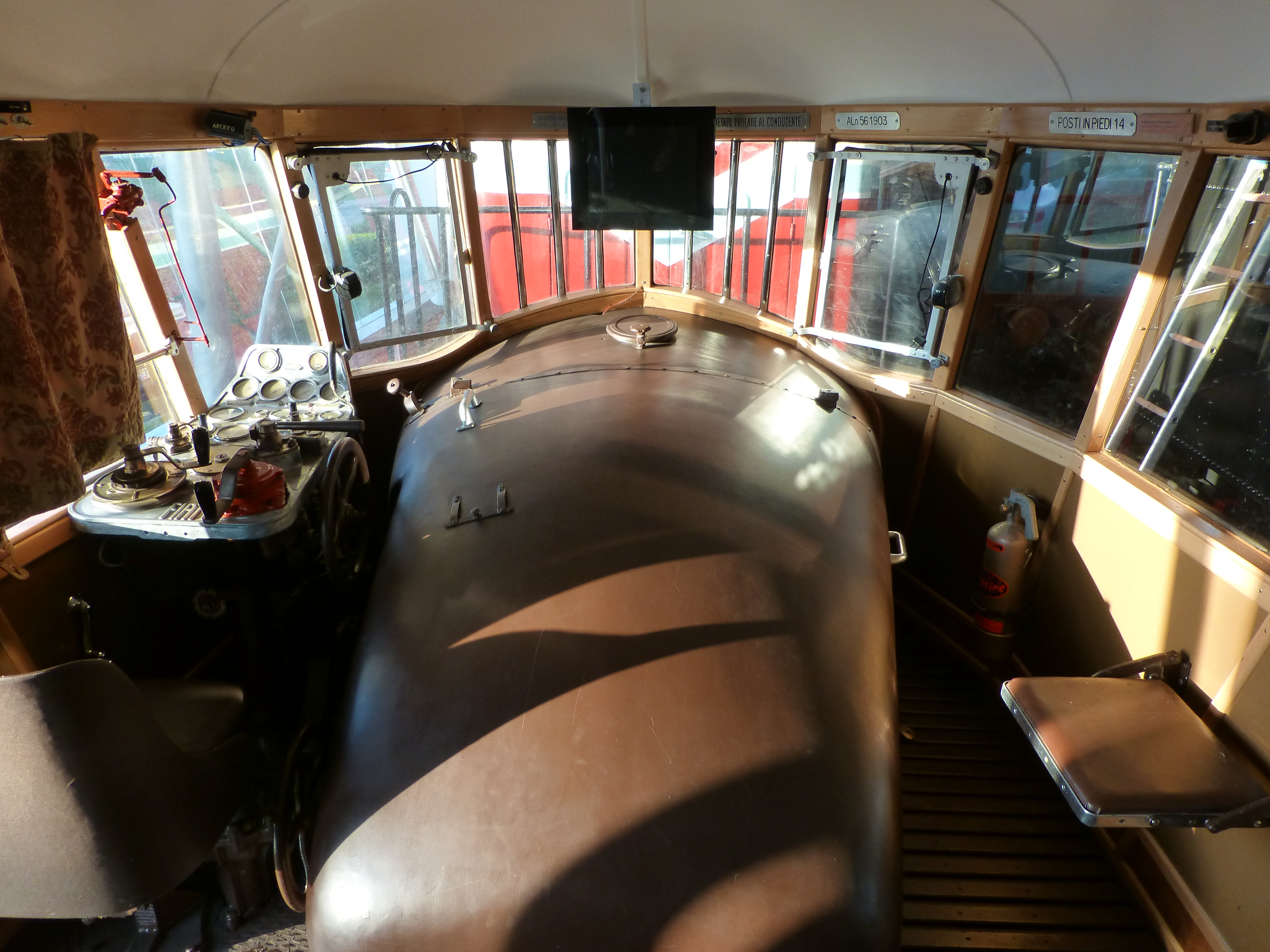 Rahmi M. Koç Museum